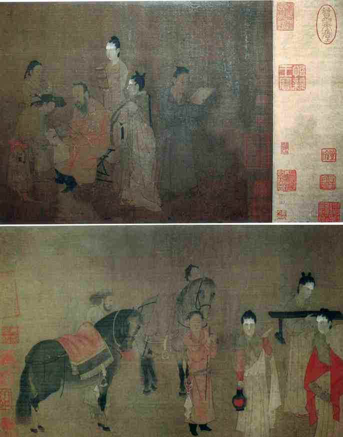 Northern Qi Scholars Collating Classic Texts.